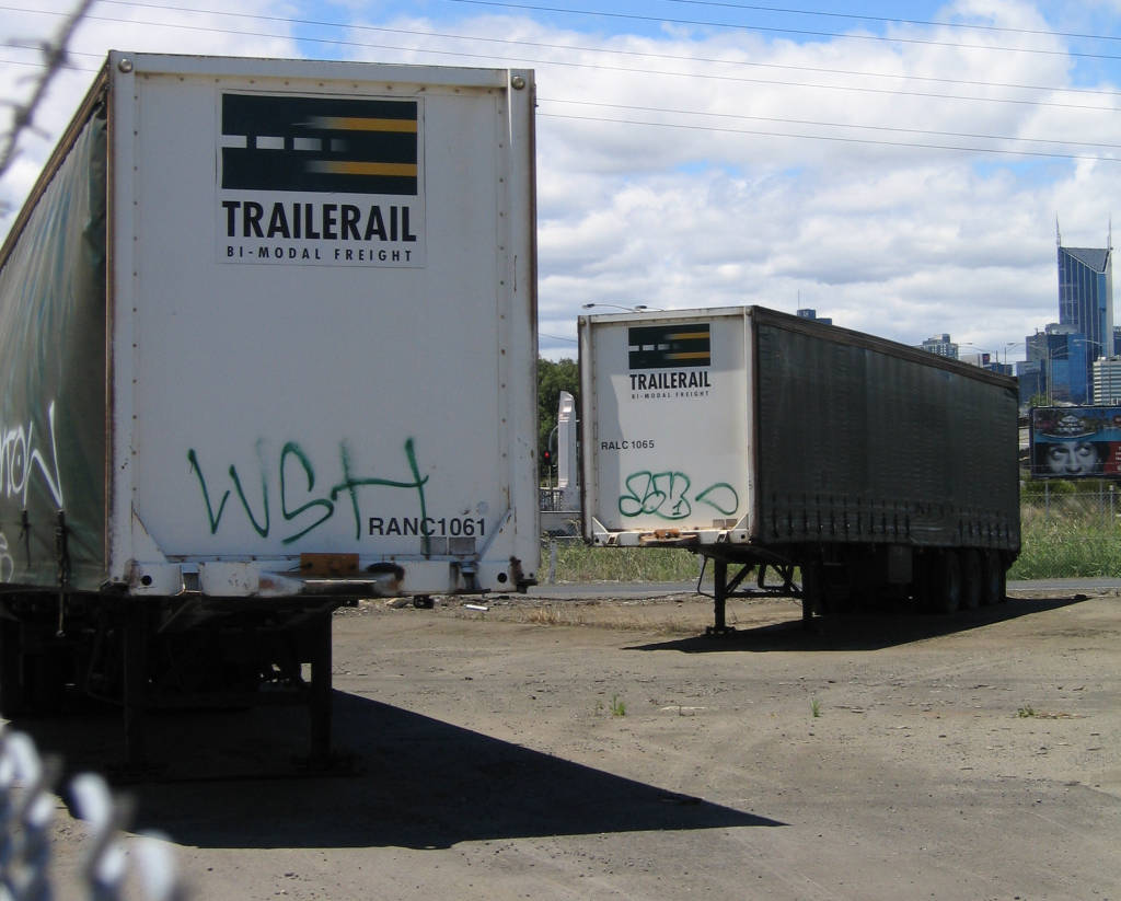 Australian National Railways Commission operated Roadrailers under the "Trailerail" brand. Stored trailers in Melbourne, Victoria.